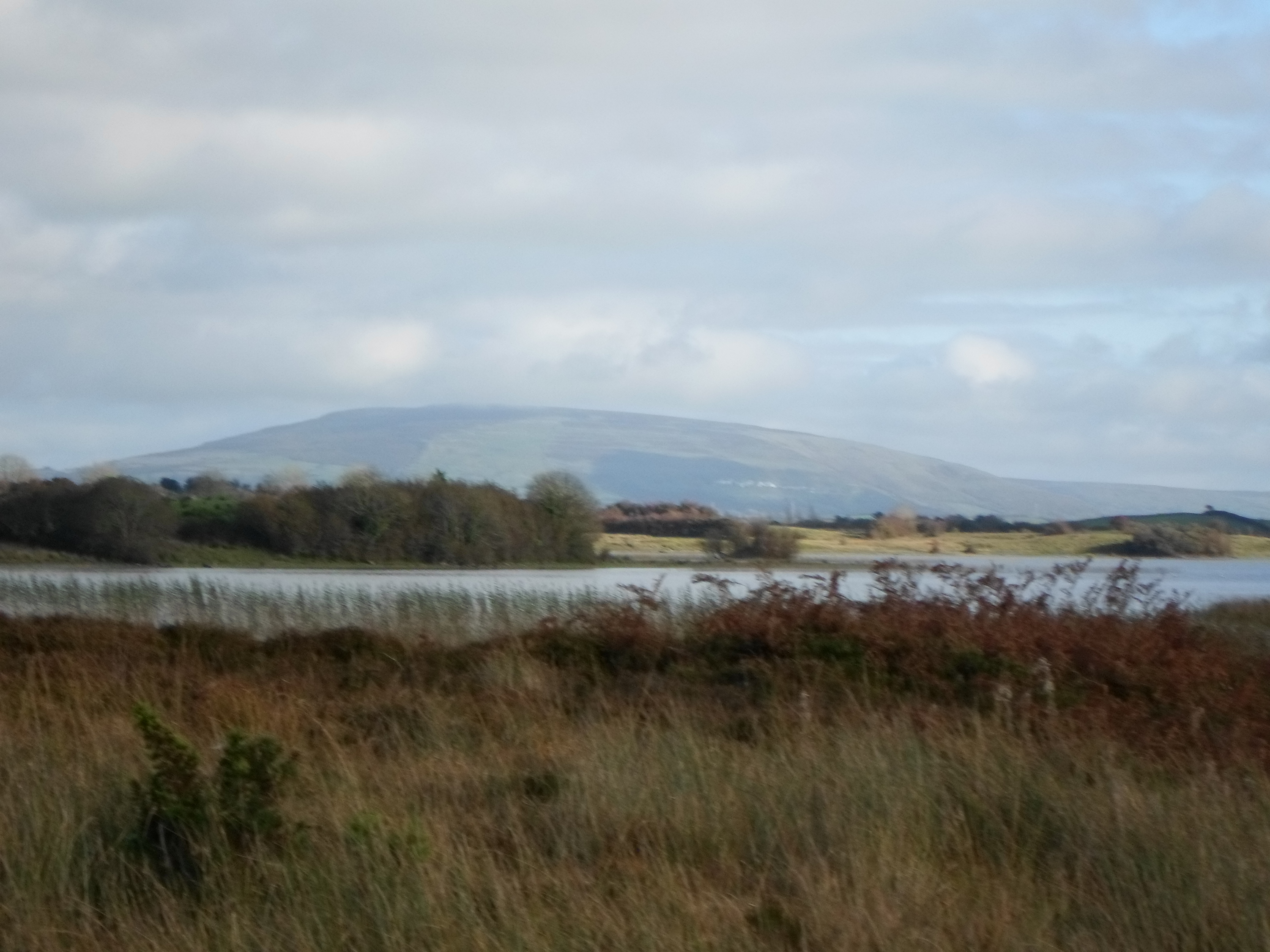 Cloonacleigha Lough, County Sligo. View from north shore towards Keshcorran Hill.